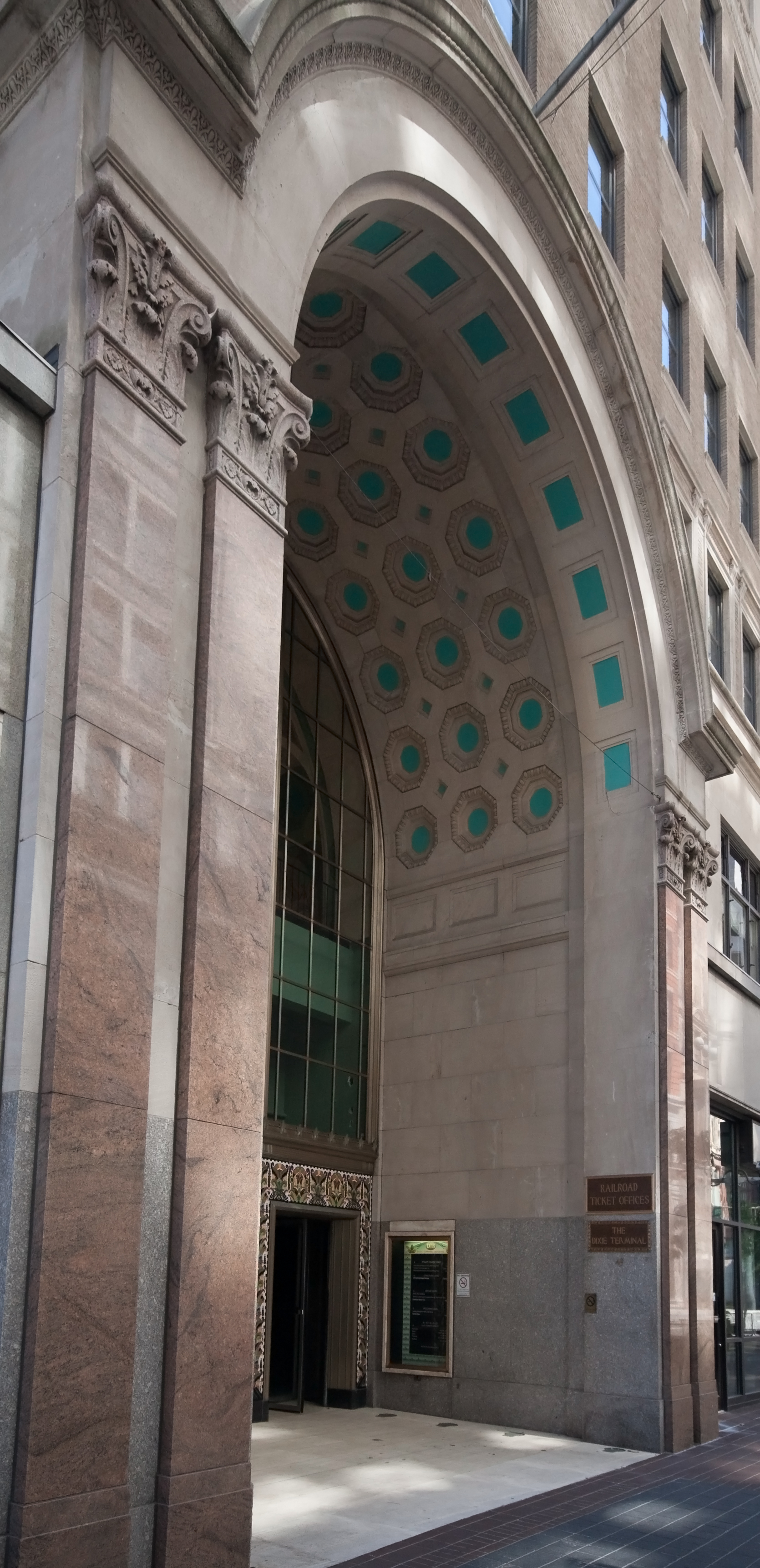 Dixie Terminal Entrance, 4th & Walnut Streets, Cincinnati, Ohio